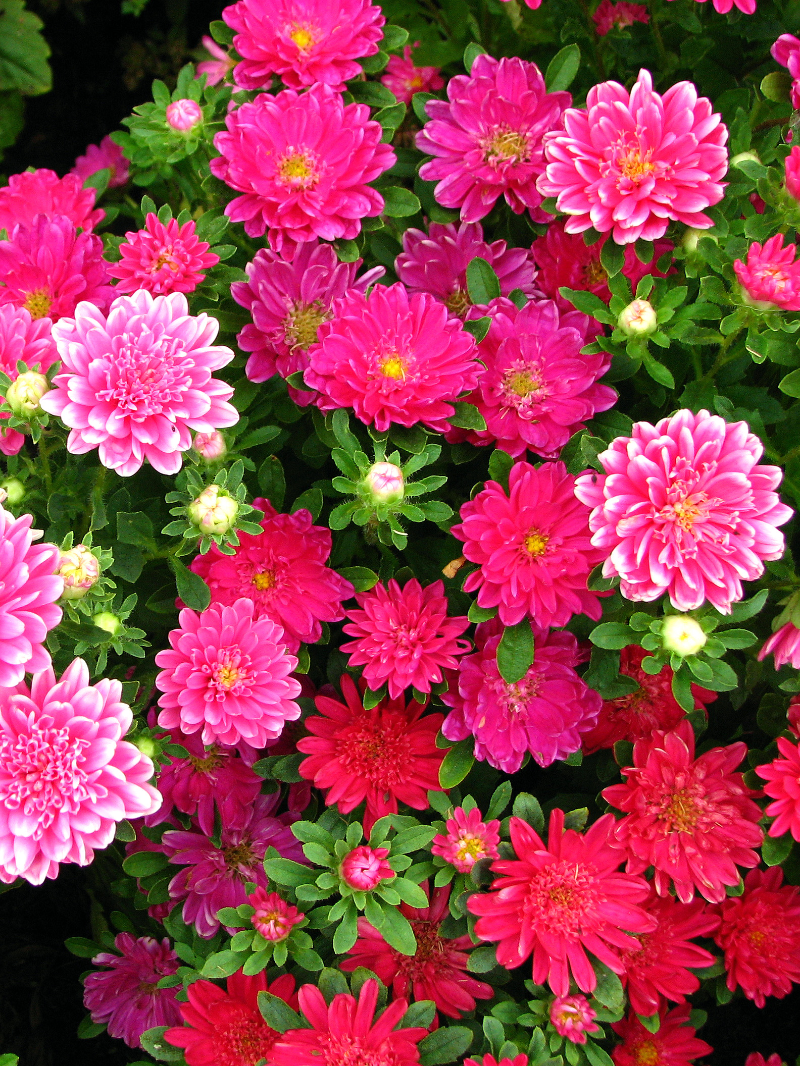 Flower beds in park Kolomenskoye (Moscow).